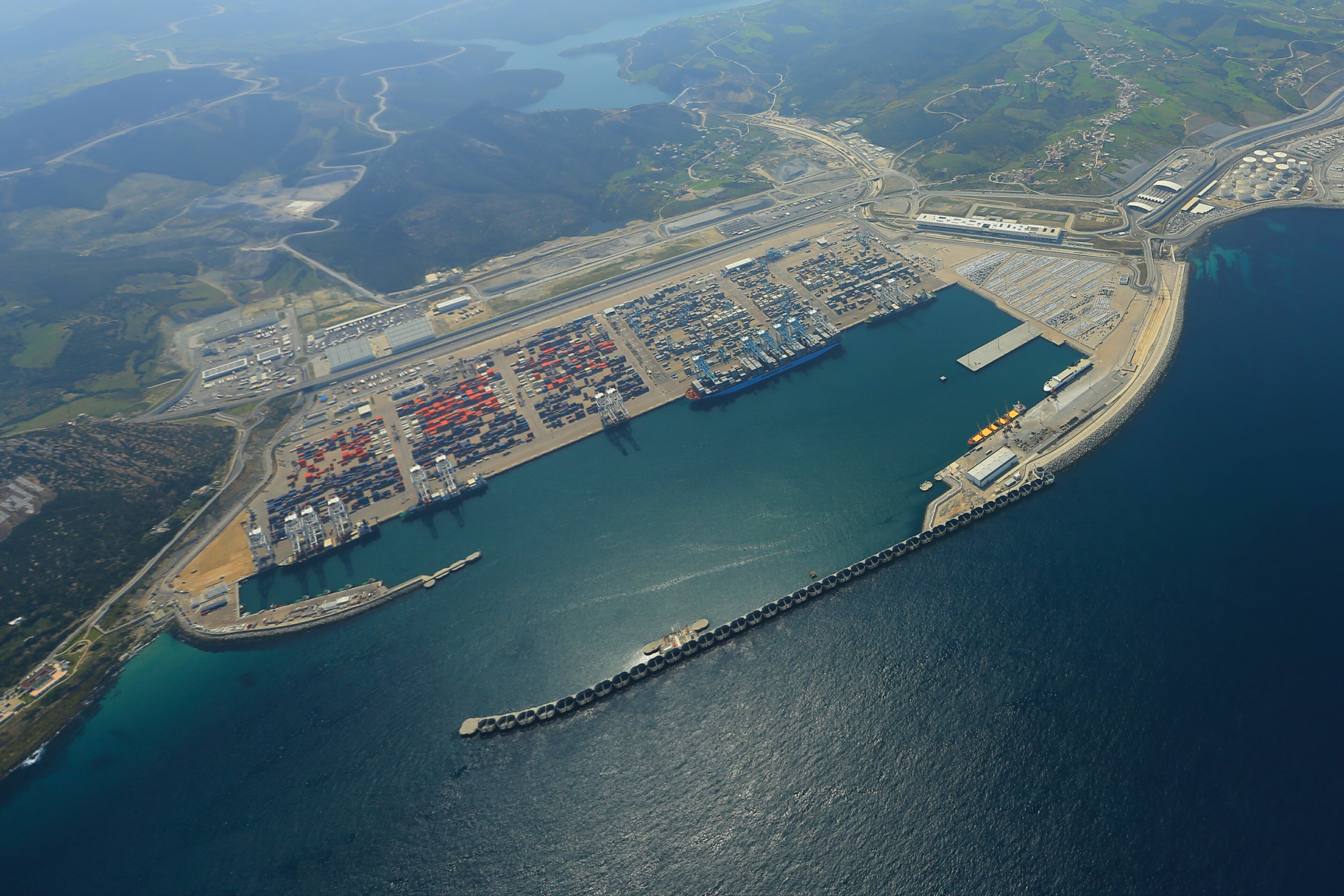 aerial view of the Port complex Tangier Med.